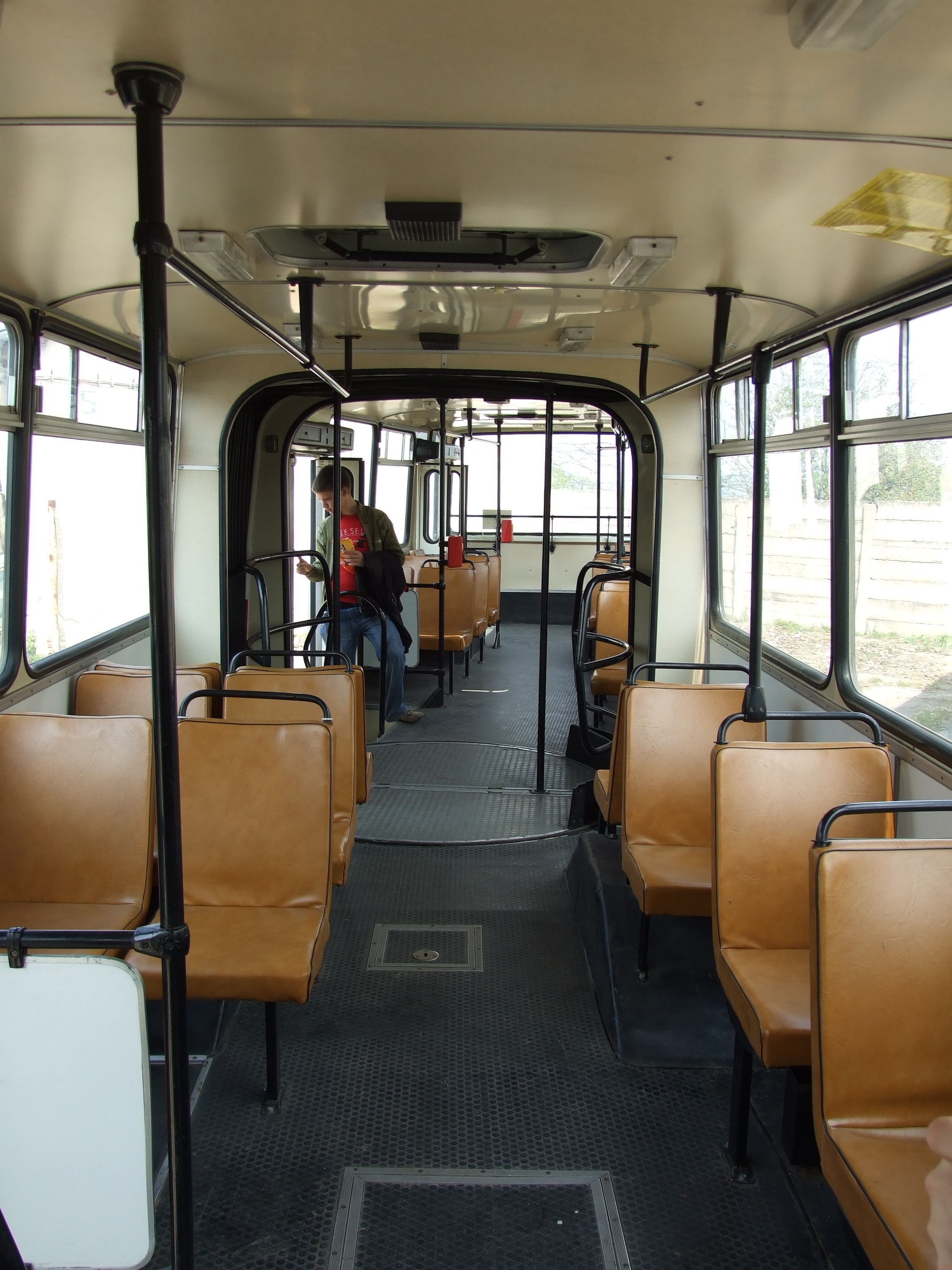 Historic bus model Ikarus 280 (hungarian origin) in Brnohelp